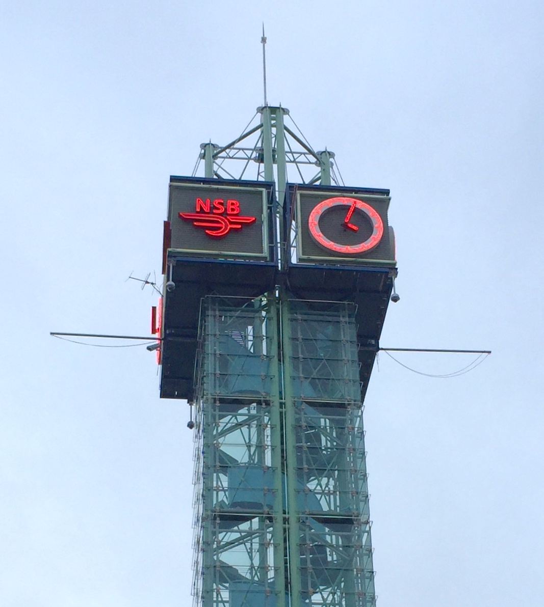 Surveillance tower, public transit concourse in Oslo